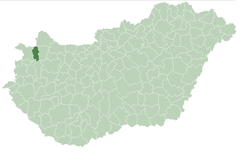 Hungarian subregion Kapuvár–Beled.